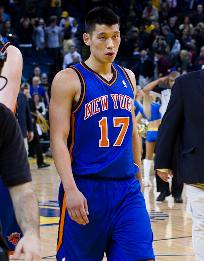 Jeremy Lin with the Knicks and reporters Bân-lâm-gú: Lîm Su-hô. 林書豪。